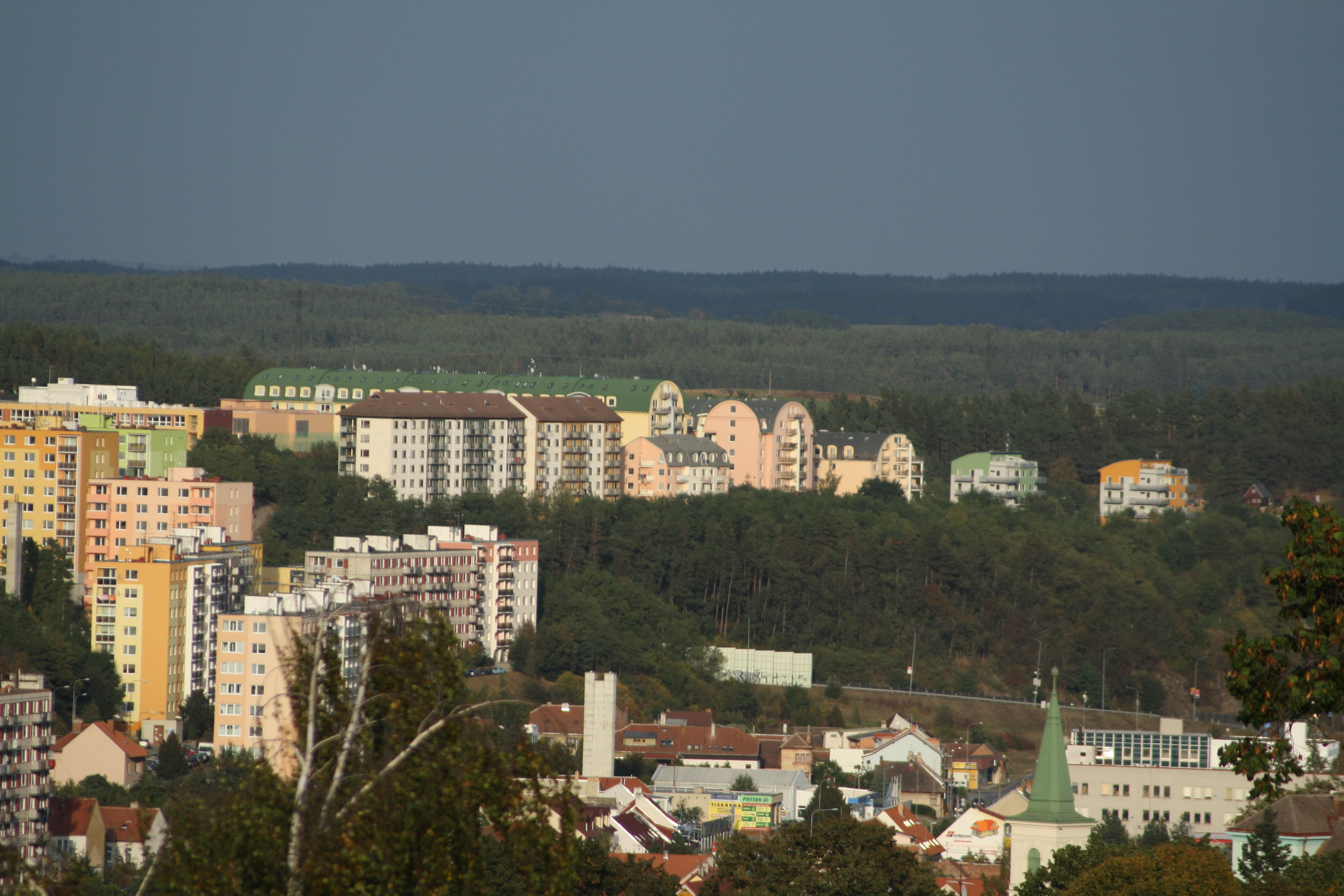 Overview of Nové Město in Třebíč, Czech Republic.